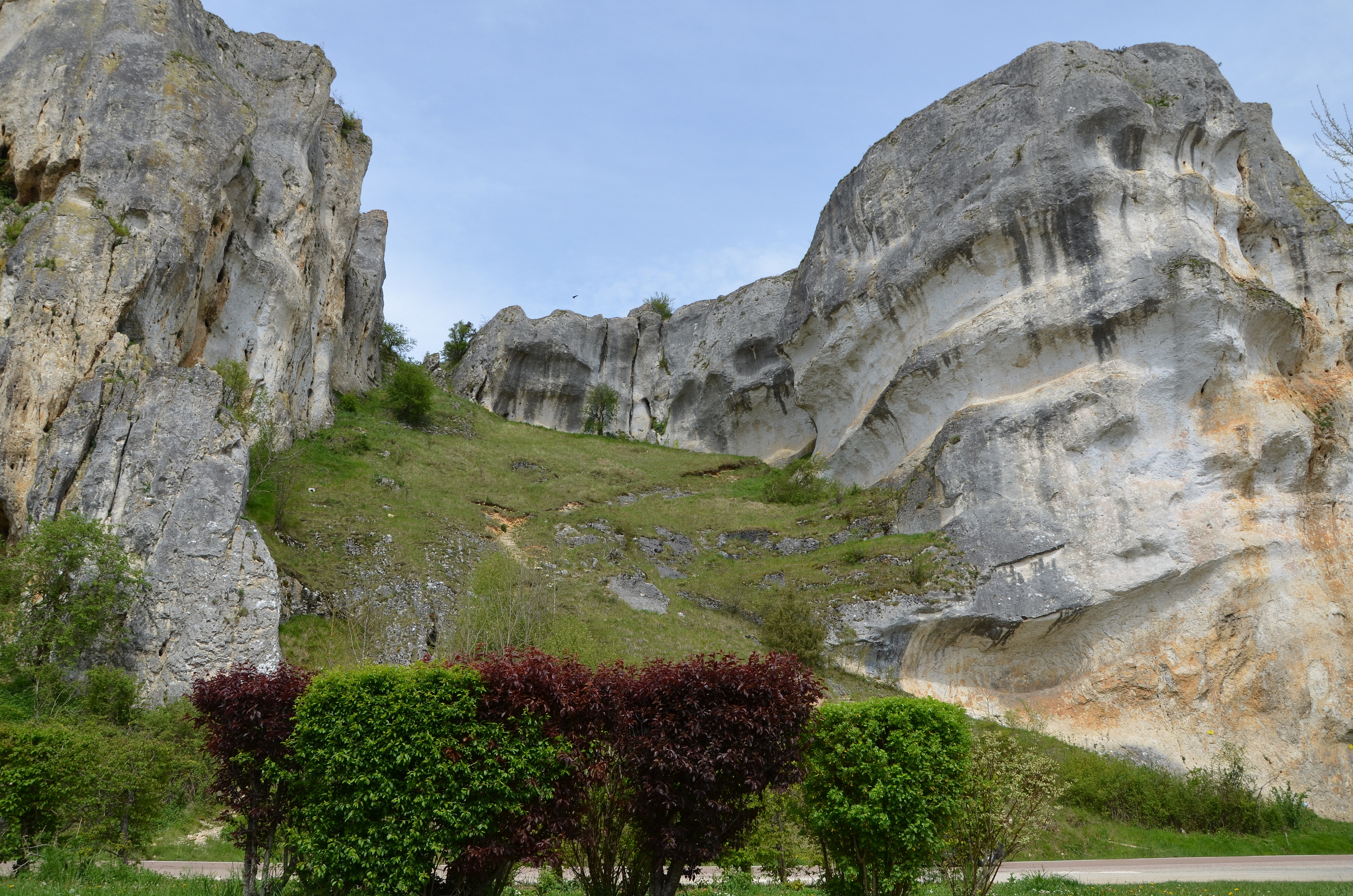 Rochers du Saussois,limestone cliffs situated beside the River Yonne in the commune of Merry-sur-Yonne,France